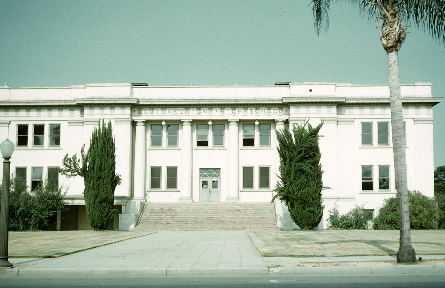 Covina Union High School, Covina, California